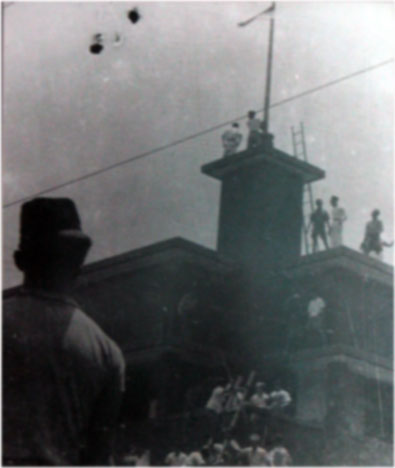 Surabaya pro-Independence youths fly Indonesian red and white flag in Hotel Oranje/Hotel Yamato, September 19, en:2006. Taken from East Java provincial government archive gallery. As a picture published by Indonesian government, it is in public domain.